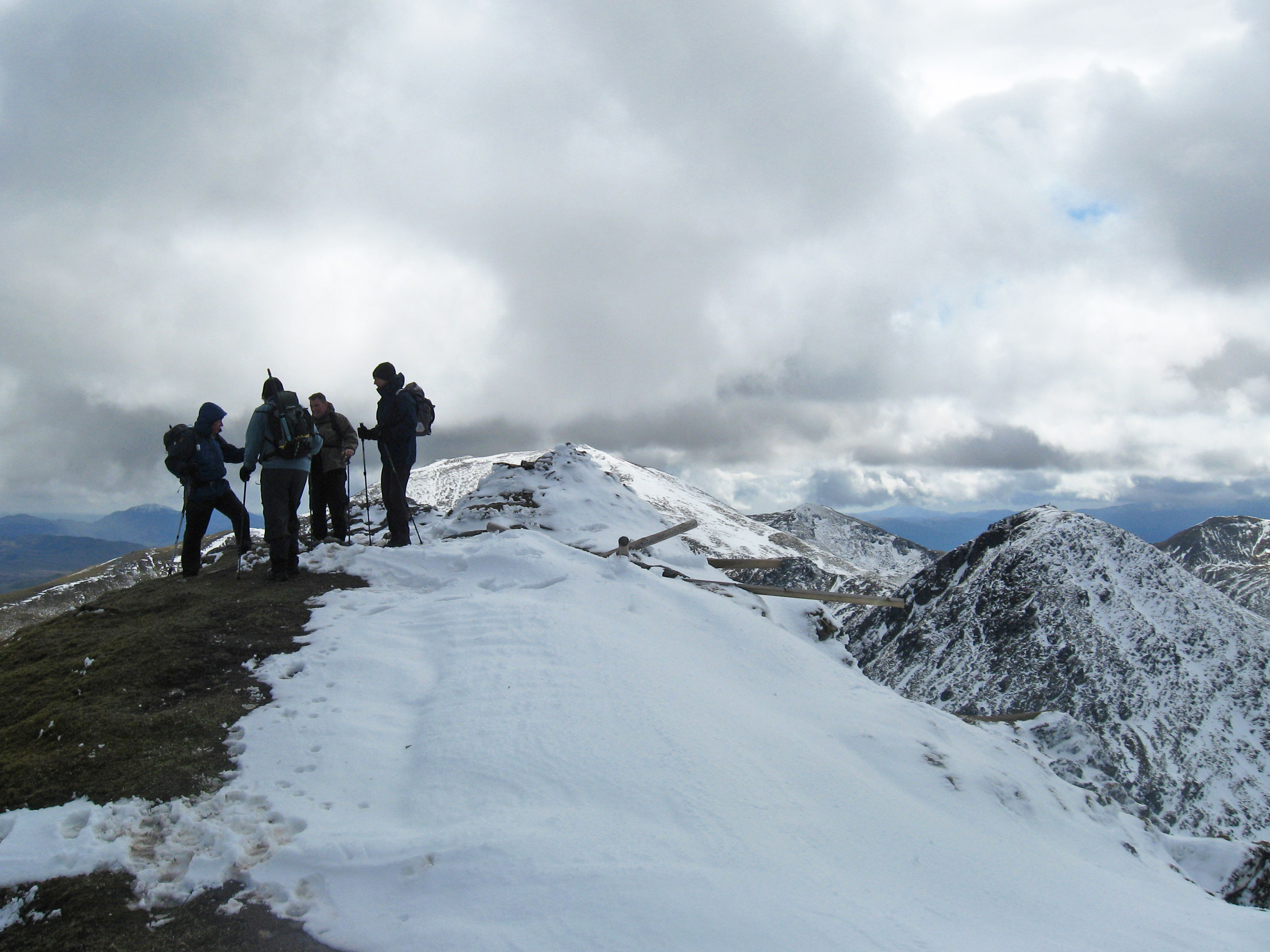 The summit of Meall Garbh, with Ben Lawers catching the light directly behind the summit cairn, and An Stùc to the right.